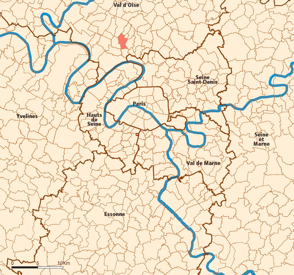 Created map myself.